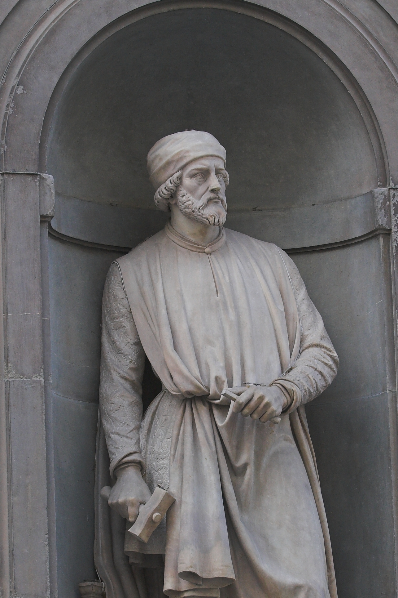 Statues at the Uffizi, on the facade of the Gallery building.